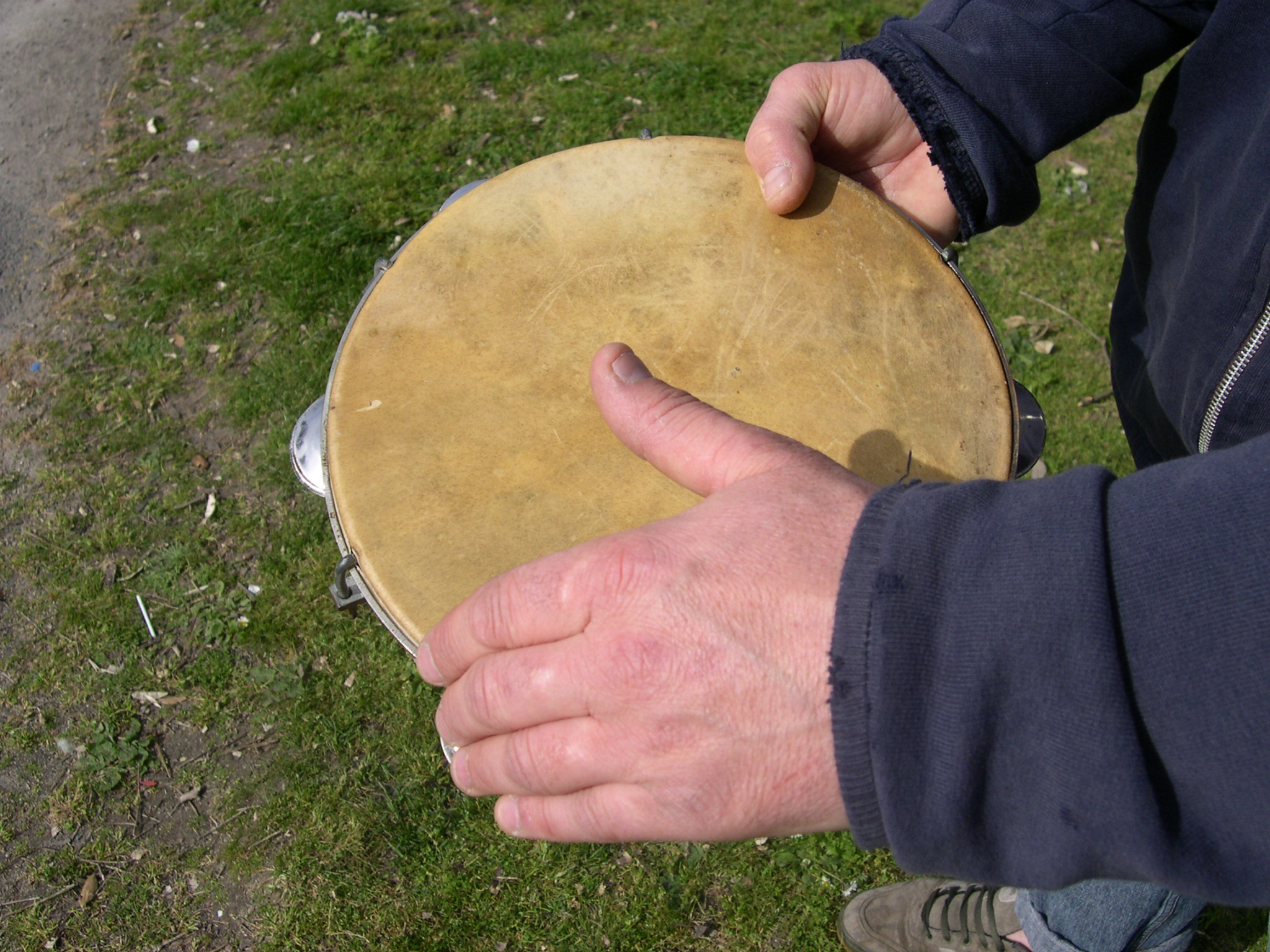 Pandeiro.